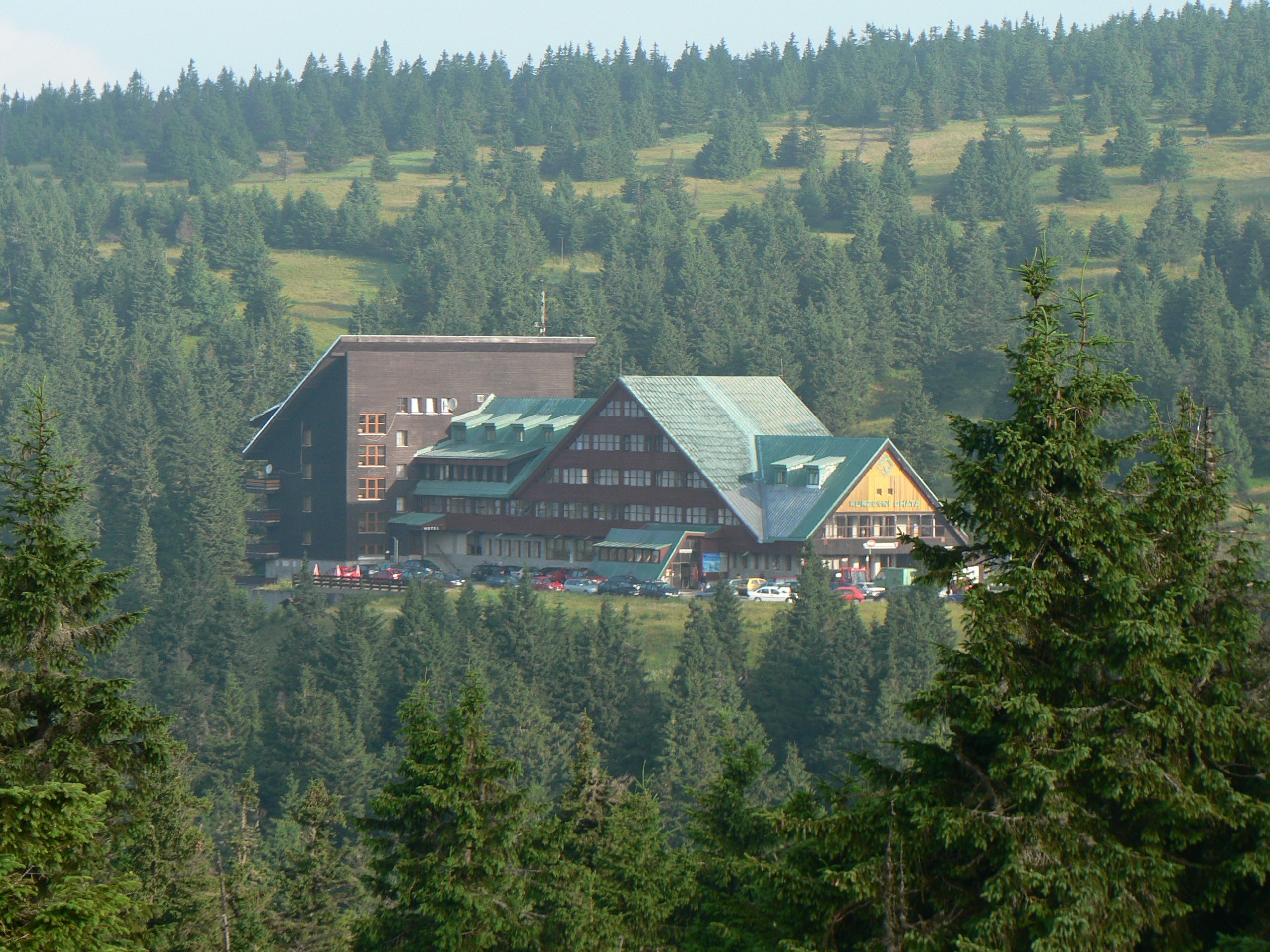 Kurzovni chata cottage on the slopes of Praded mountain, Hruby Jesenik Mts, Czech republic.